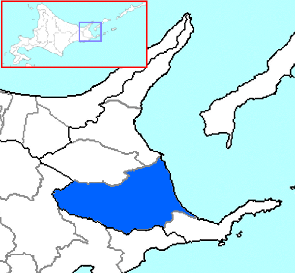 The location of Betsukai in Nemuro Subprefecture, Hokkaido Prefecture, Japan.